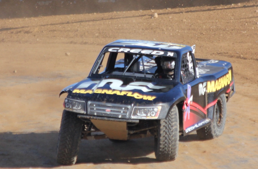 The Stadium Super Trucks vehicle of winner Sheldon Creed.